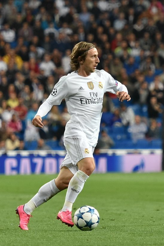 Luka Modric playing for Real Madrid in a Champions League match against Shakhtar Donetsk